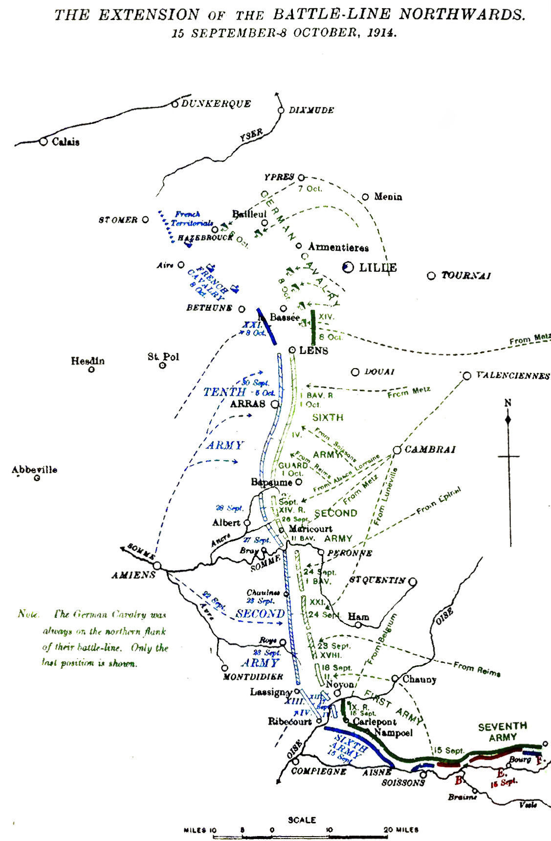 Map: Reciprocal attempts of the French and Germans to outflank to the north, 15 September - 8 October 1914